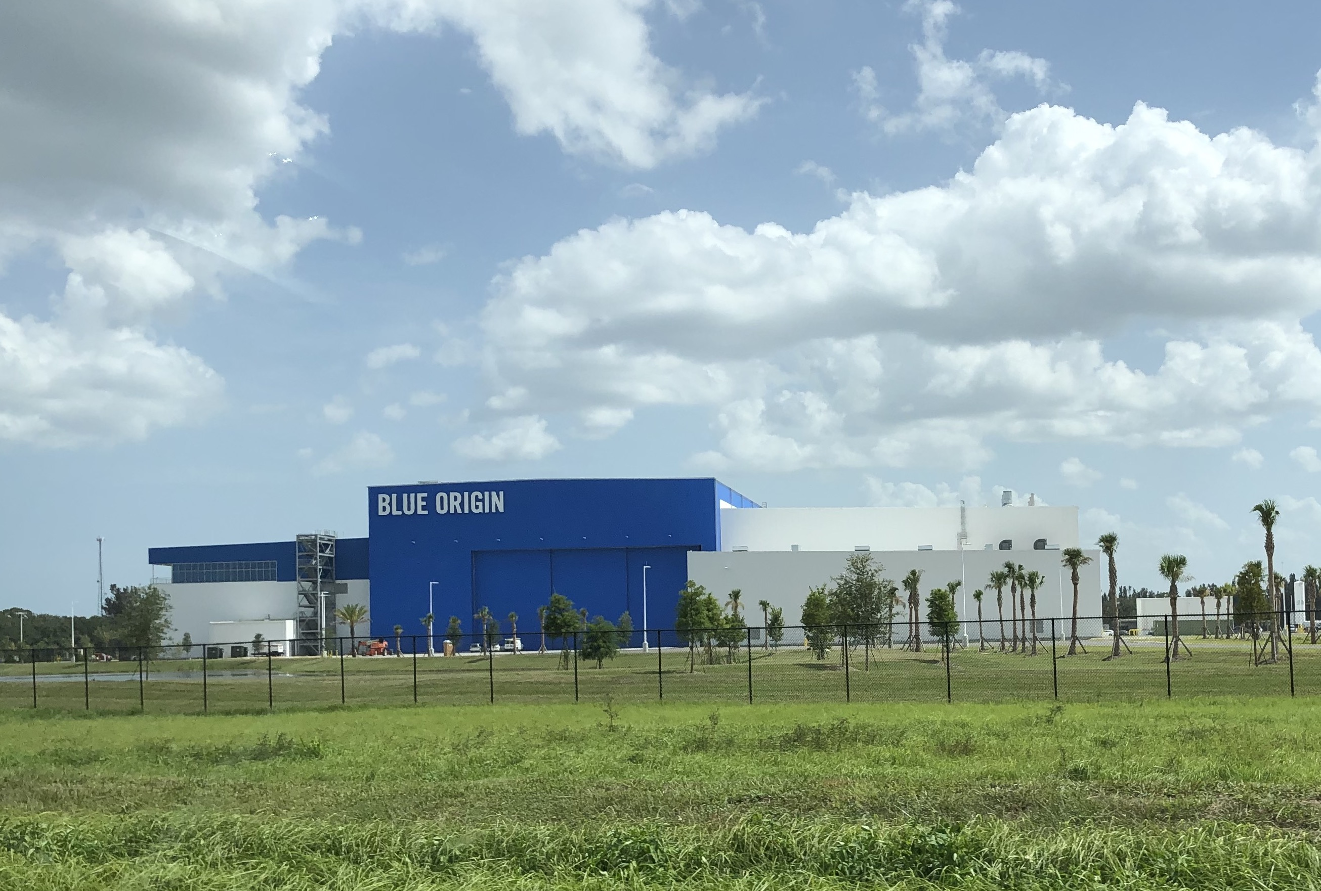 Blue Origin's OLS manufacturing building, south of the Kennedy Space Center Visitor Complex, on Merritt Island, Florida, 2018. View from the north.